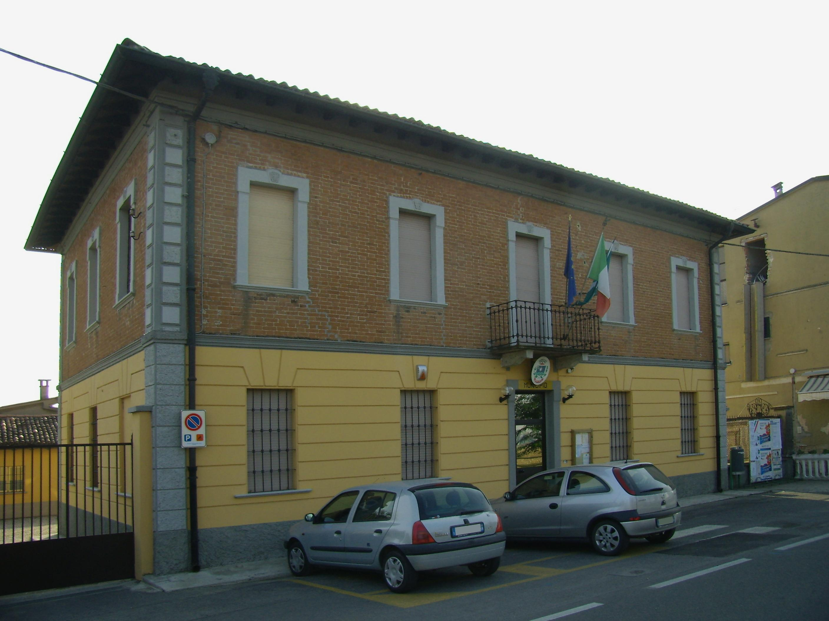 Town hall in Abbadia Cerreto.